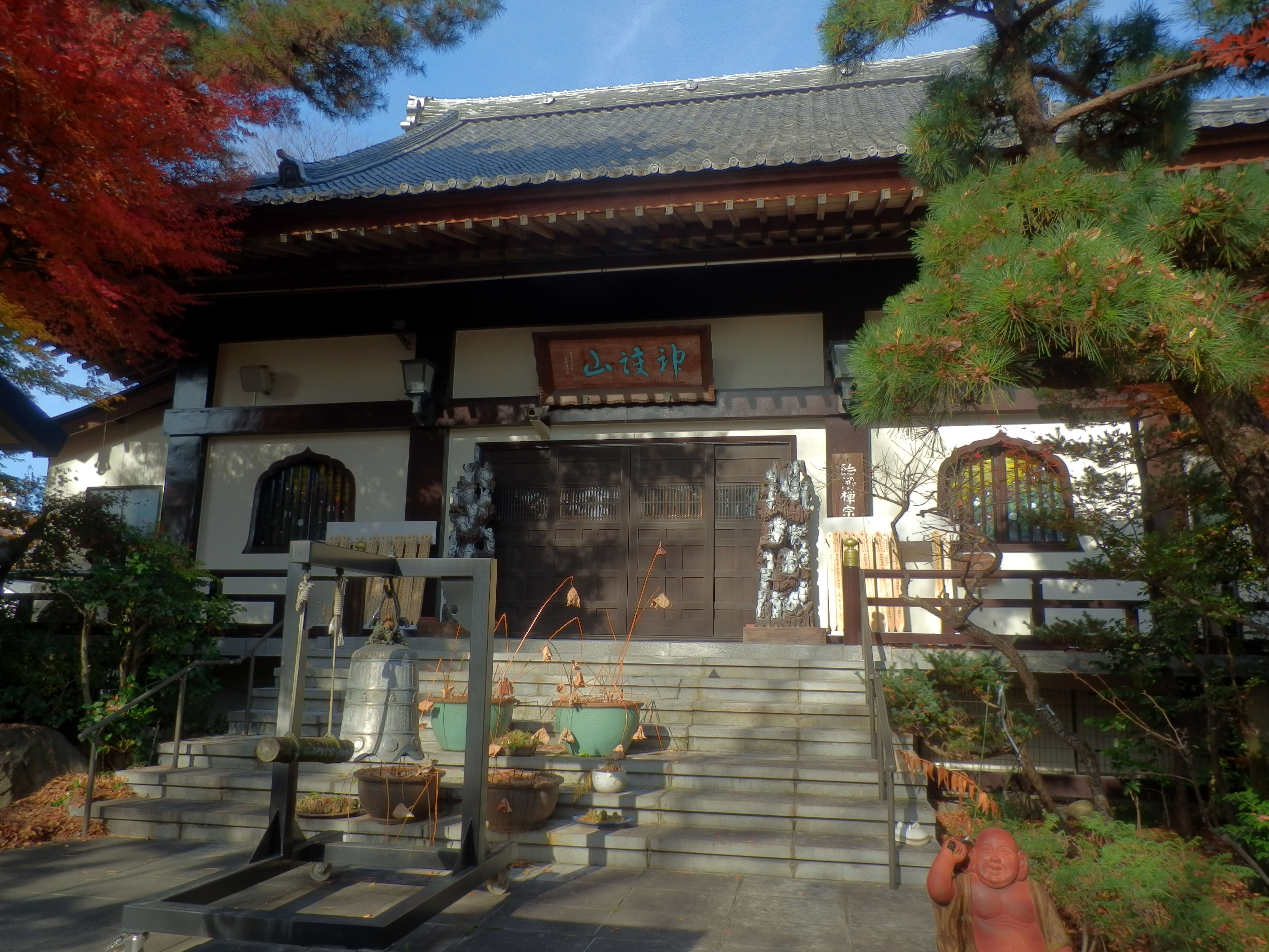 Kozenji (Buddhist temple in Utsunomiya, Japan) Hondo